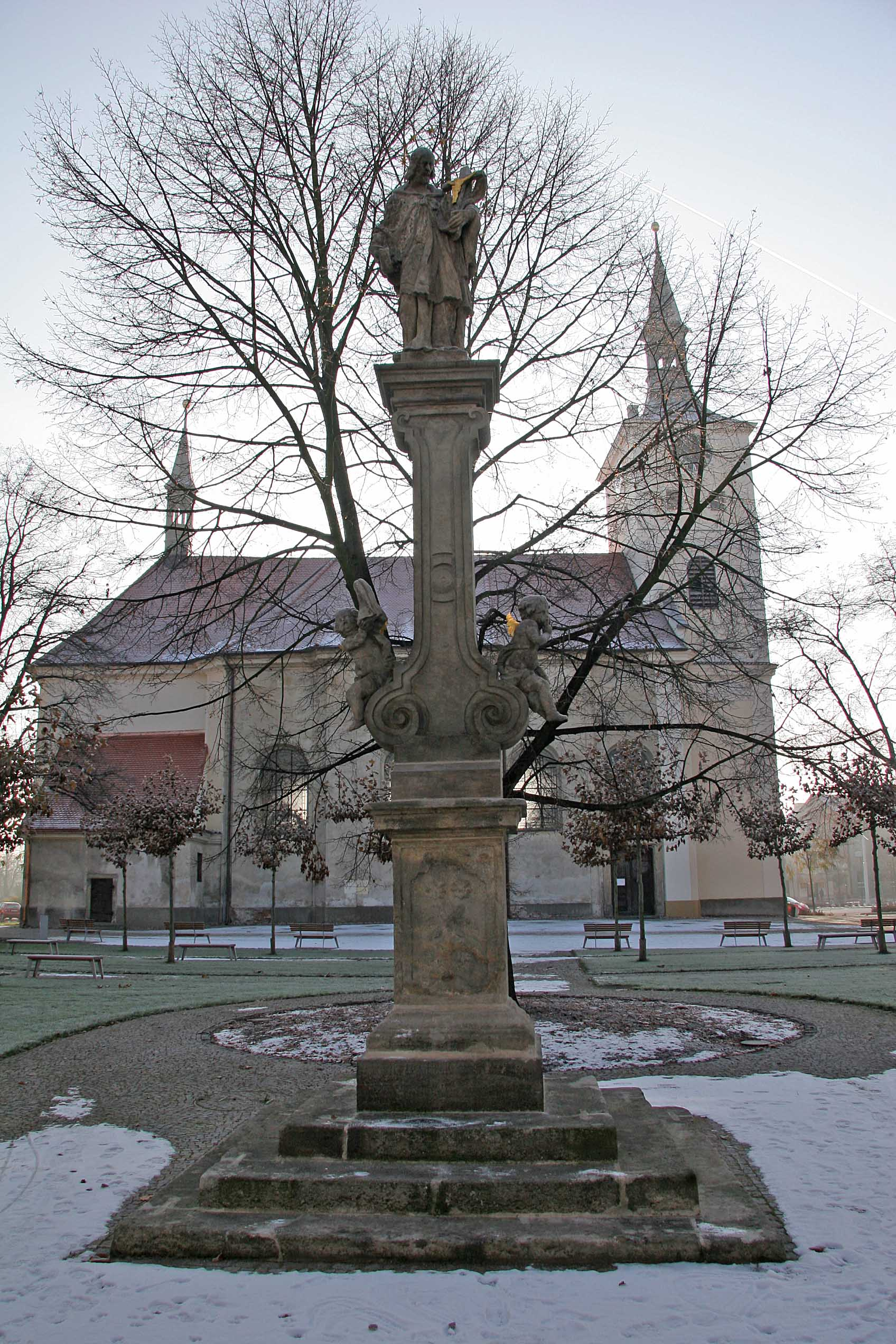 Statue of Saint John Nepomucene in town square of Lázně Bohdaneč, Pardubice District, Czech Republic